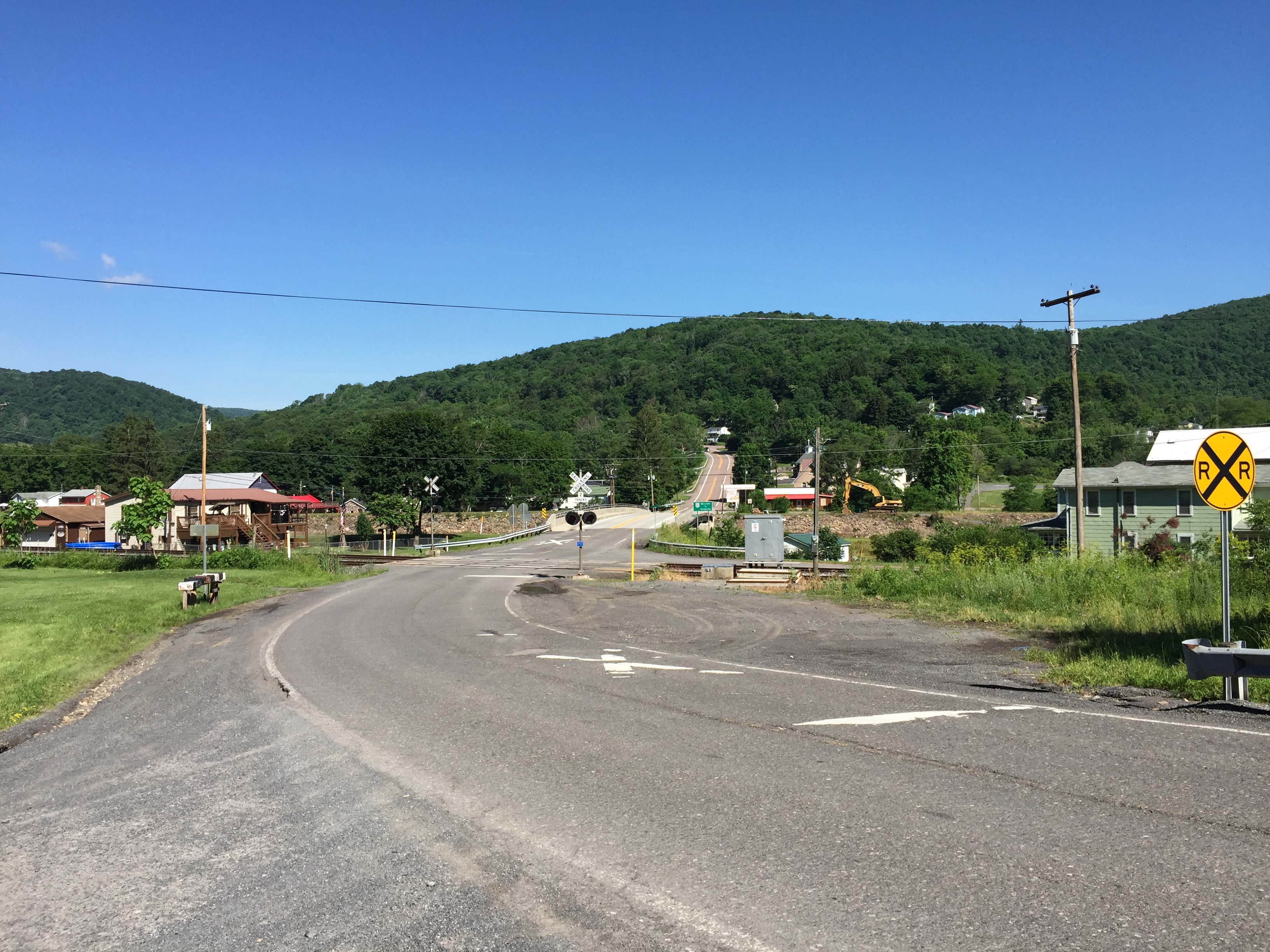 View north at the north end of West Virginia State Route 42 just before crossing the North Branch Potomac River in Blaine, Mineral County, West Virginia